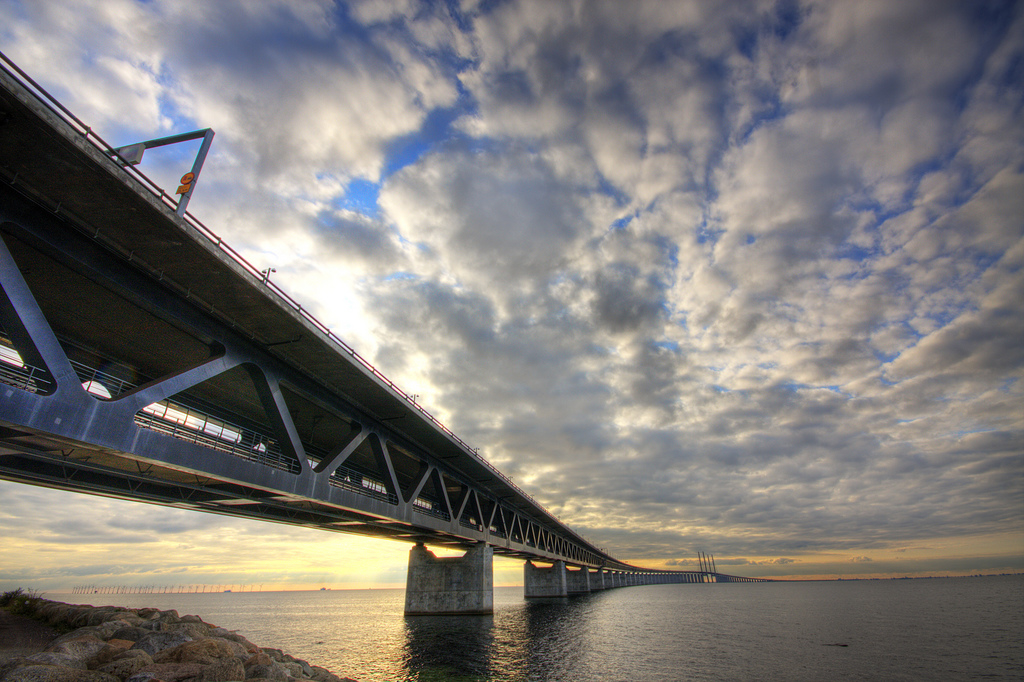 Öresund bridge HDR, Copenhagen